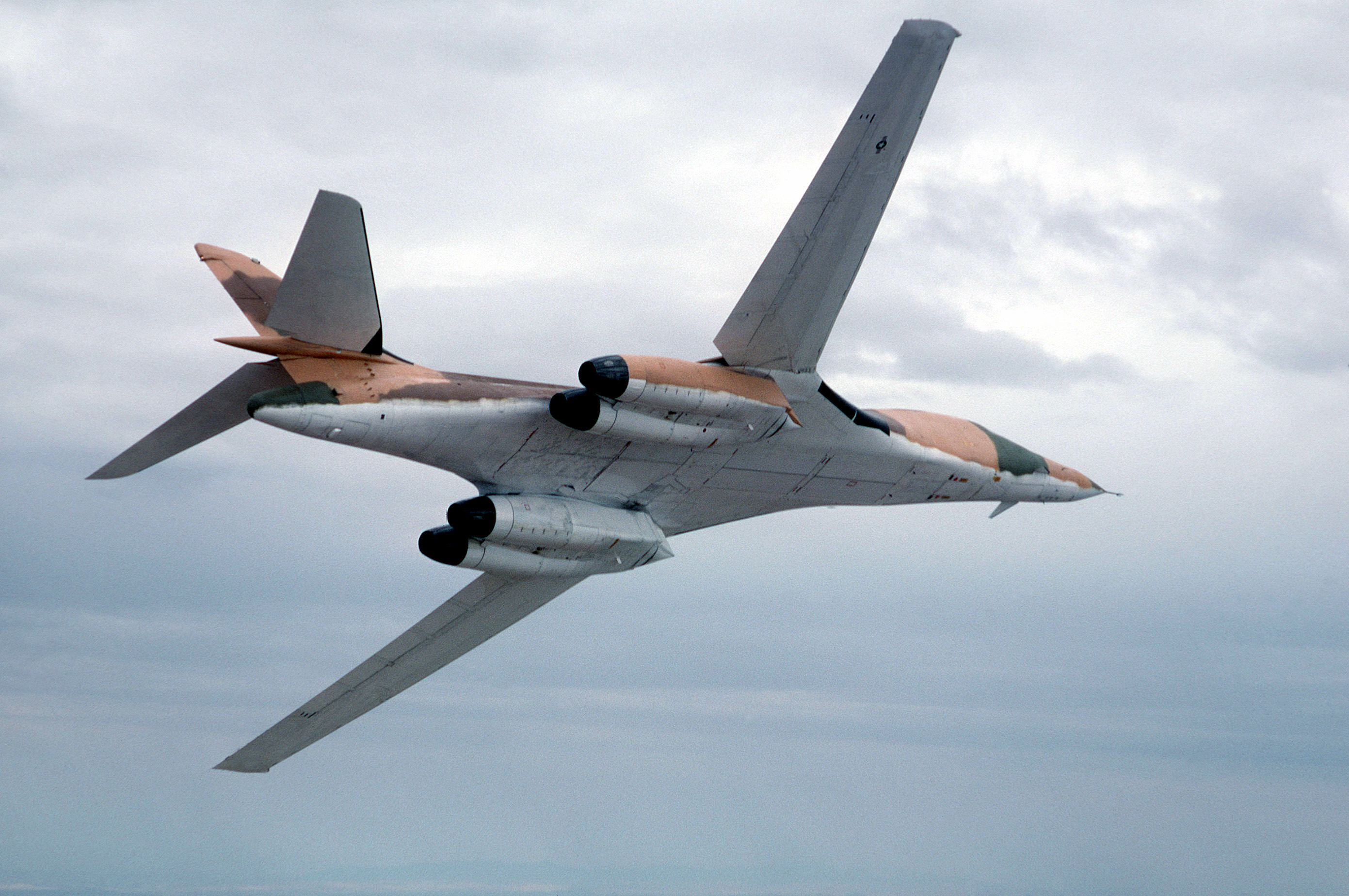 A right underside view of a B-1 bomber aircraft on its first flight since April, 1981. Location: EDWARDS AIR FORCE BASE, CALIFORNIA (CA) UNITED STATES OF AMERICA (USA)